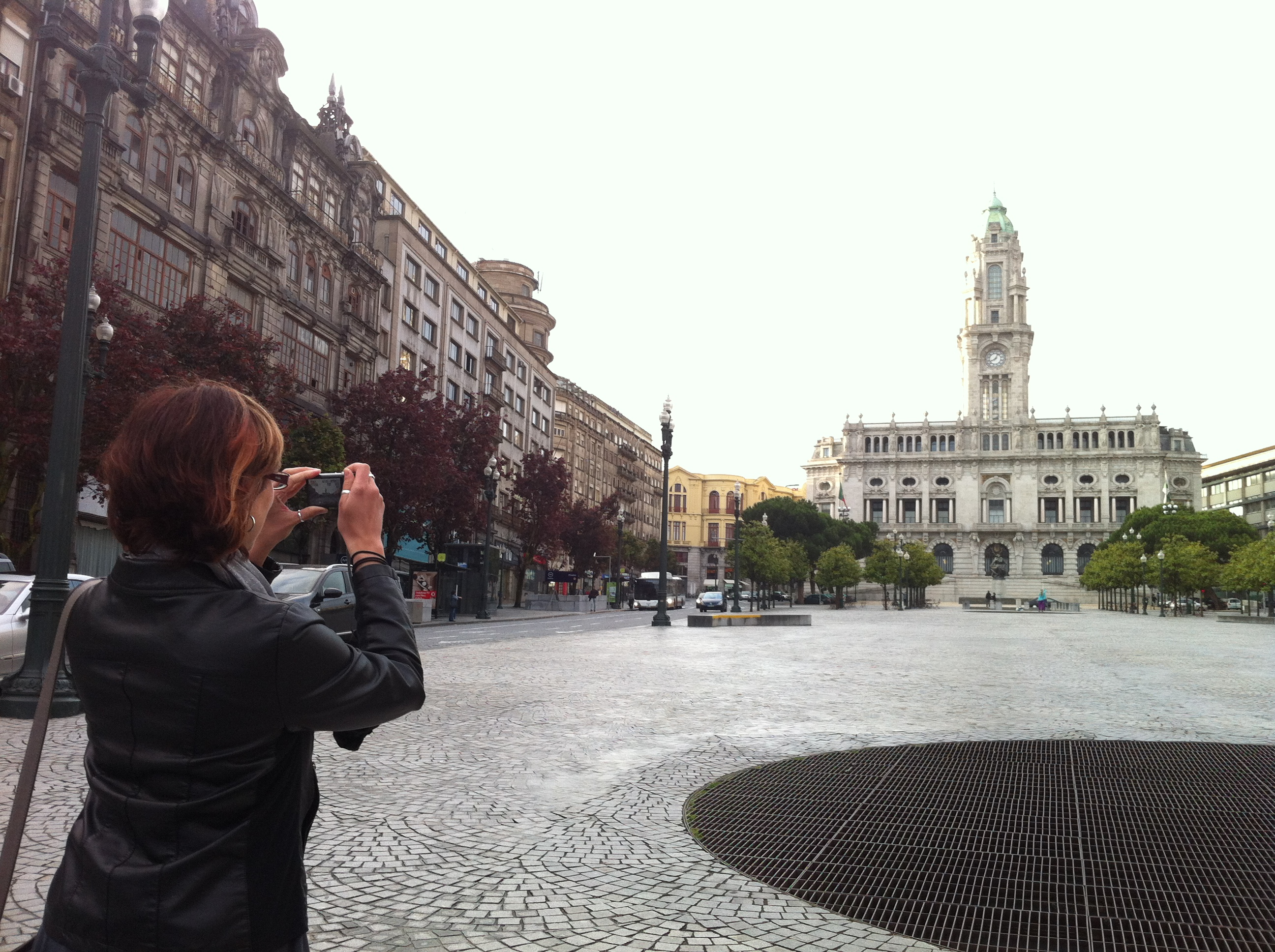 Tourist